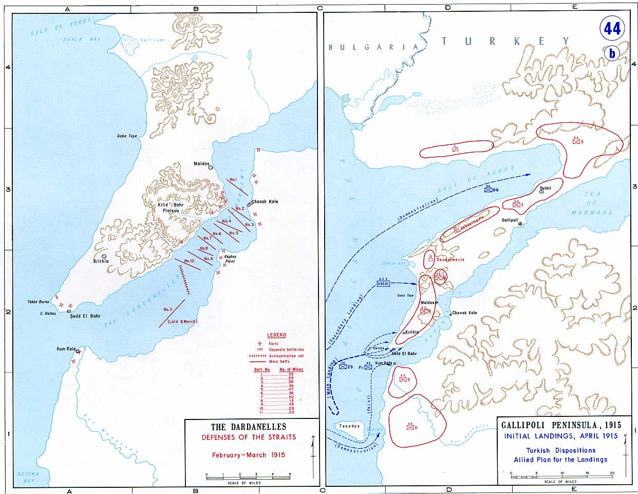 Battle of Gallipoli, February–April 1915